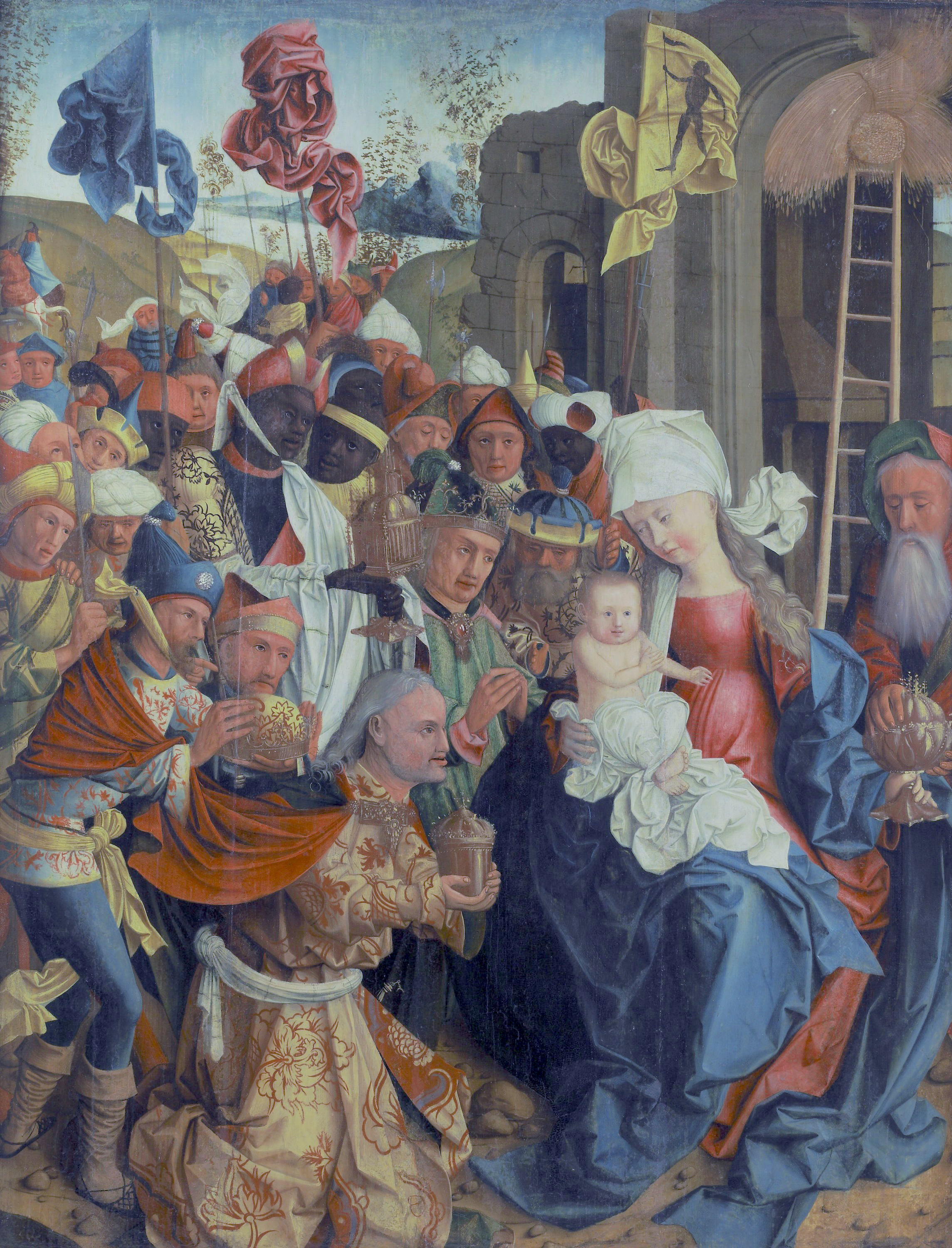 Adoration of the Kings before 1499